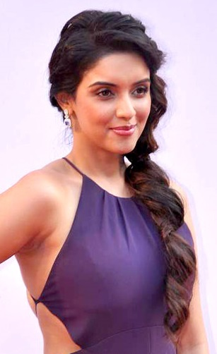 Asin at Femina Miss India finale 2013 at Yashraj Studio